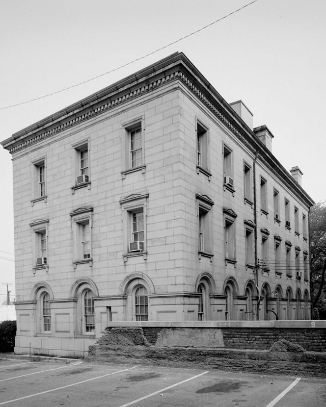 Old U.S. Customs House & Post Office, 129-141 North Union Street, Petersburg, VA. Now City Hall CALL NUMBER: HABS VA,27-PET,31- Historic American Buildings Survey, creator Survey number HABS VA-659 Building/structure dates: 1858 initial construction 1870 subsequent work1910 subsequent work Significance: This building was designed by Ammi B. Young, first Supervising Architect of the United States Treasury, in the Italian Renaissance style. During the War between the States, it housed the Confederate military authorities, while the roof was a Confederate signal station and a favorite place from which to view the fighting on the eastern front.